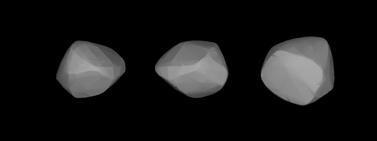 A three-dimensional model of 386 Siegena that was computed using light curve inversion techniques.